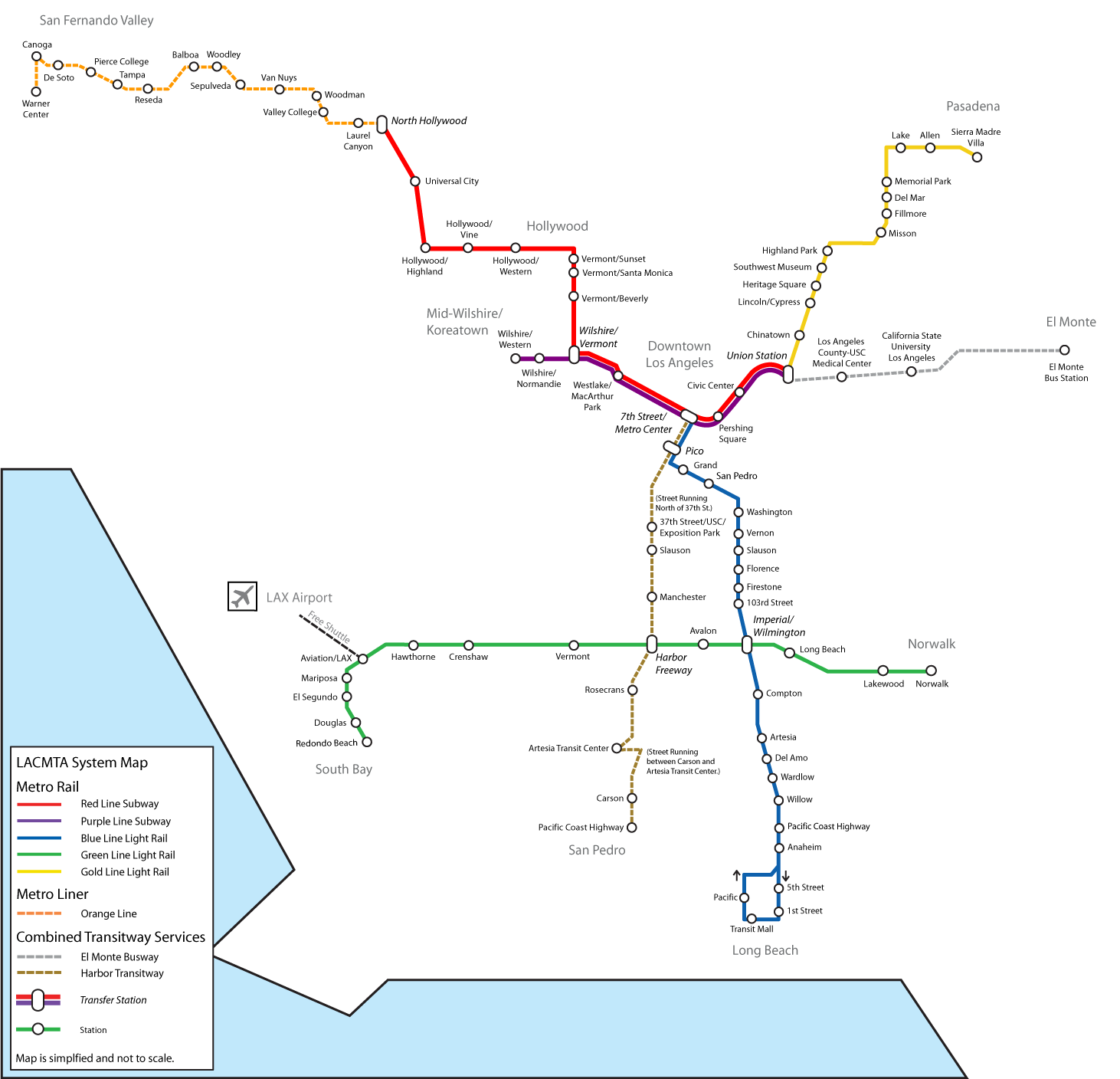 Map of Los Angeles Metro system